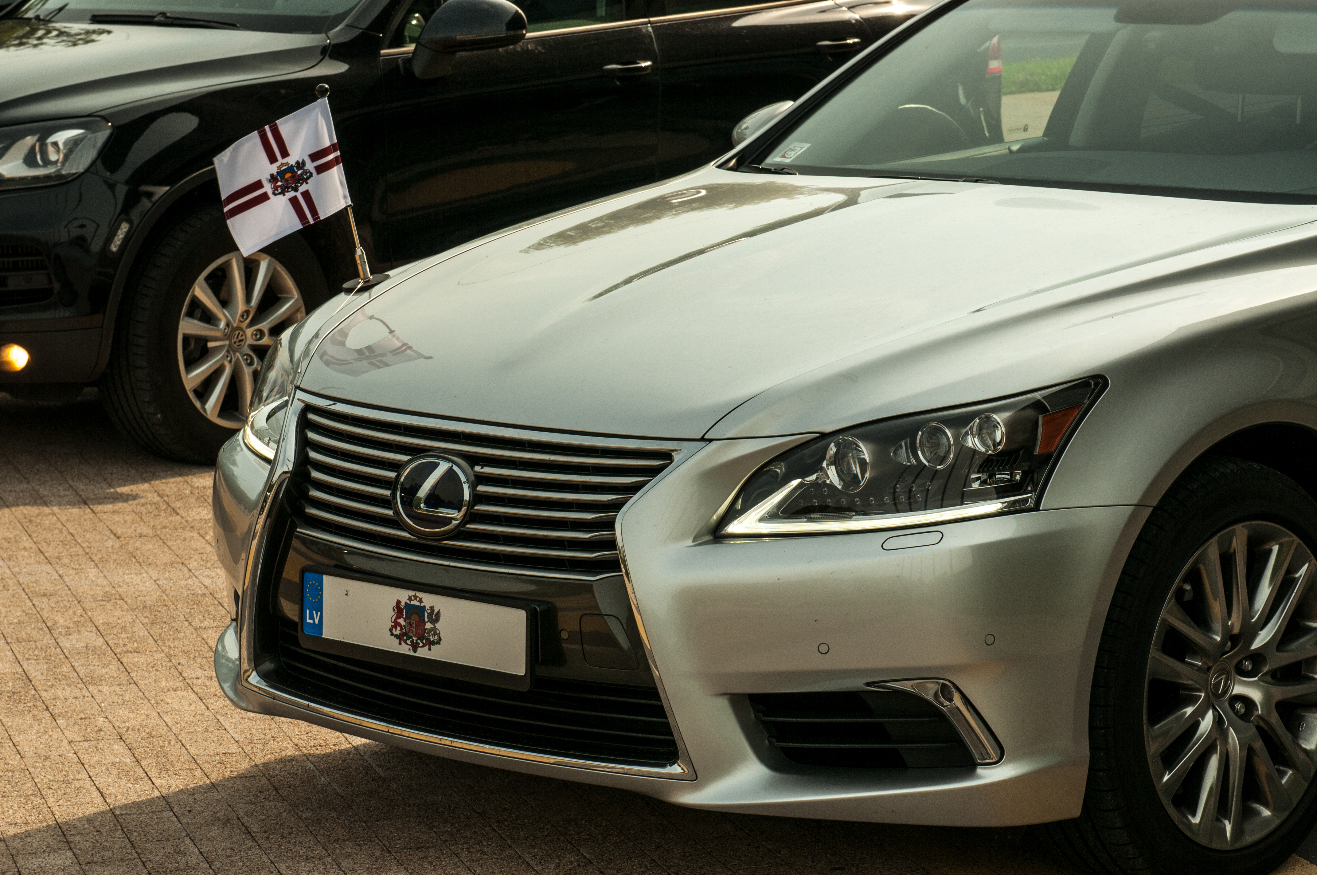 BSPC in Riga